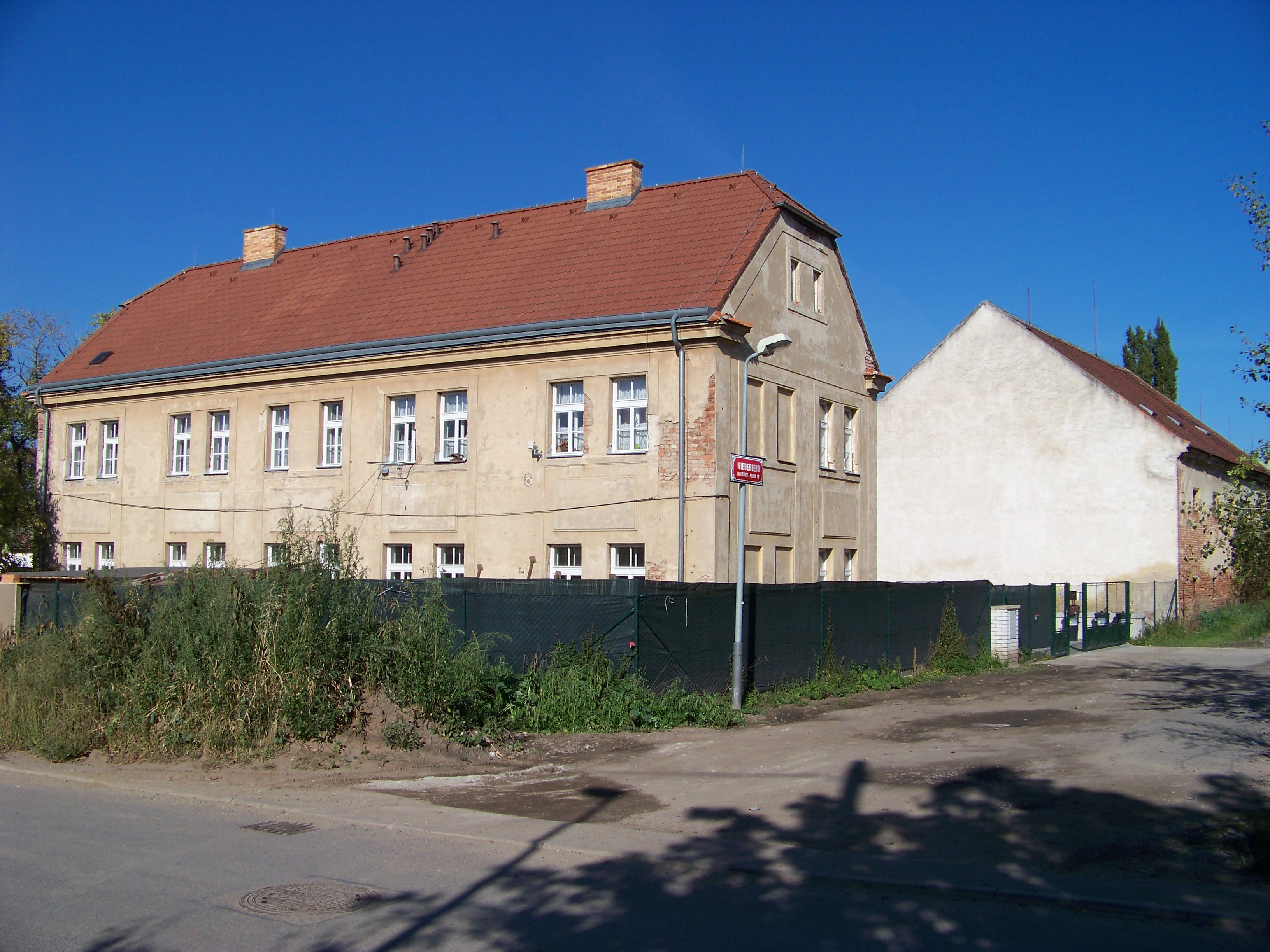 Prague-Malešice, the Czech Republic. Podle trati and Niederleho street, the castle.